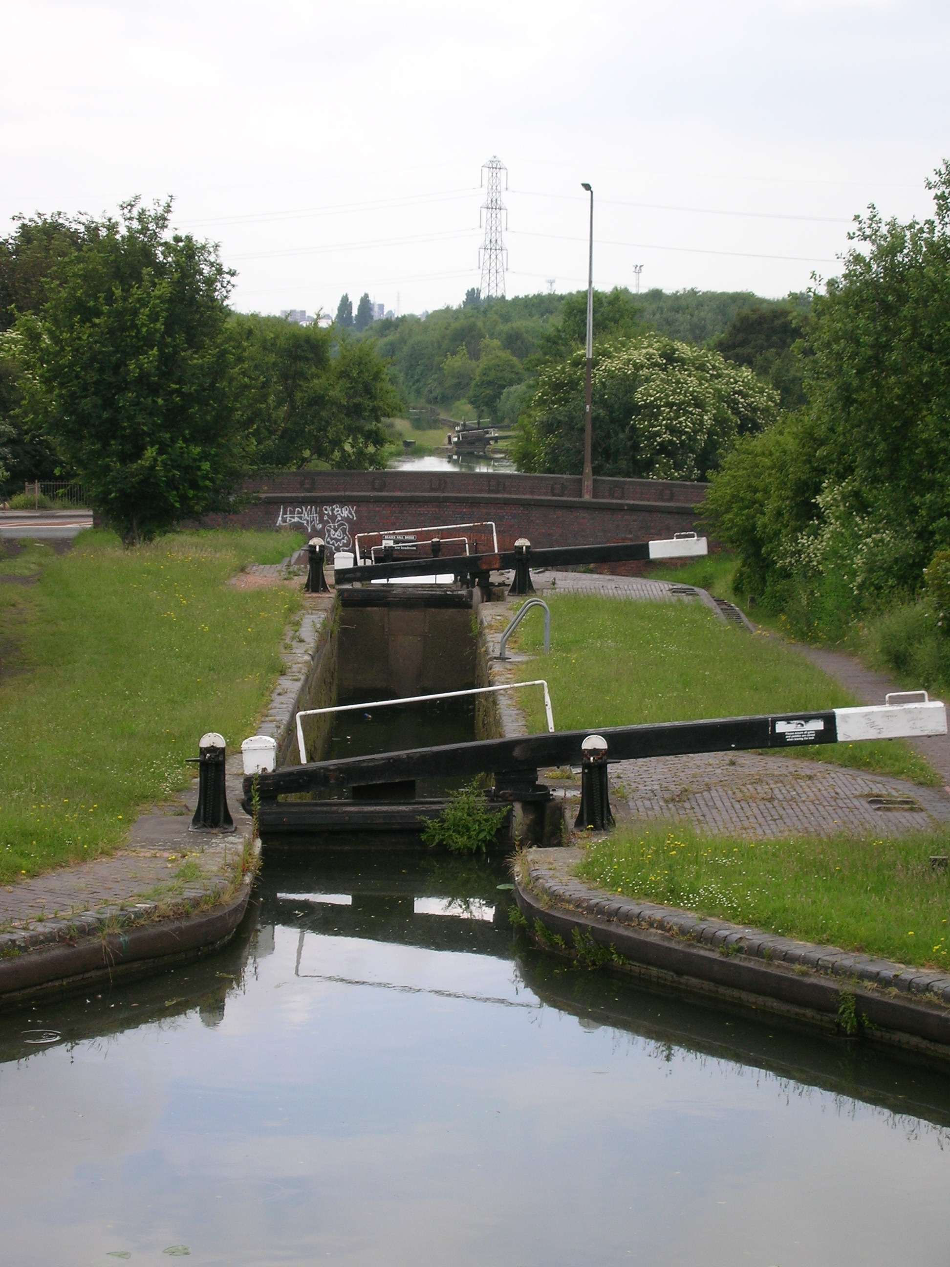 The Brades locks on the Gower Branch Canal in Tividale, West Midlands, England. The locks are typical of the Birmingham Canal Navigations in having single lower gates. The nearest pair form a staircase with three gates. Behind the A57 road bridge is a third lock, to the north. Photographed by me 13 June 2007. Oosoom